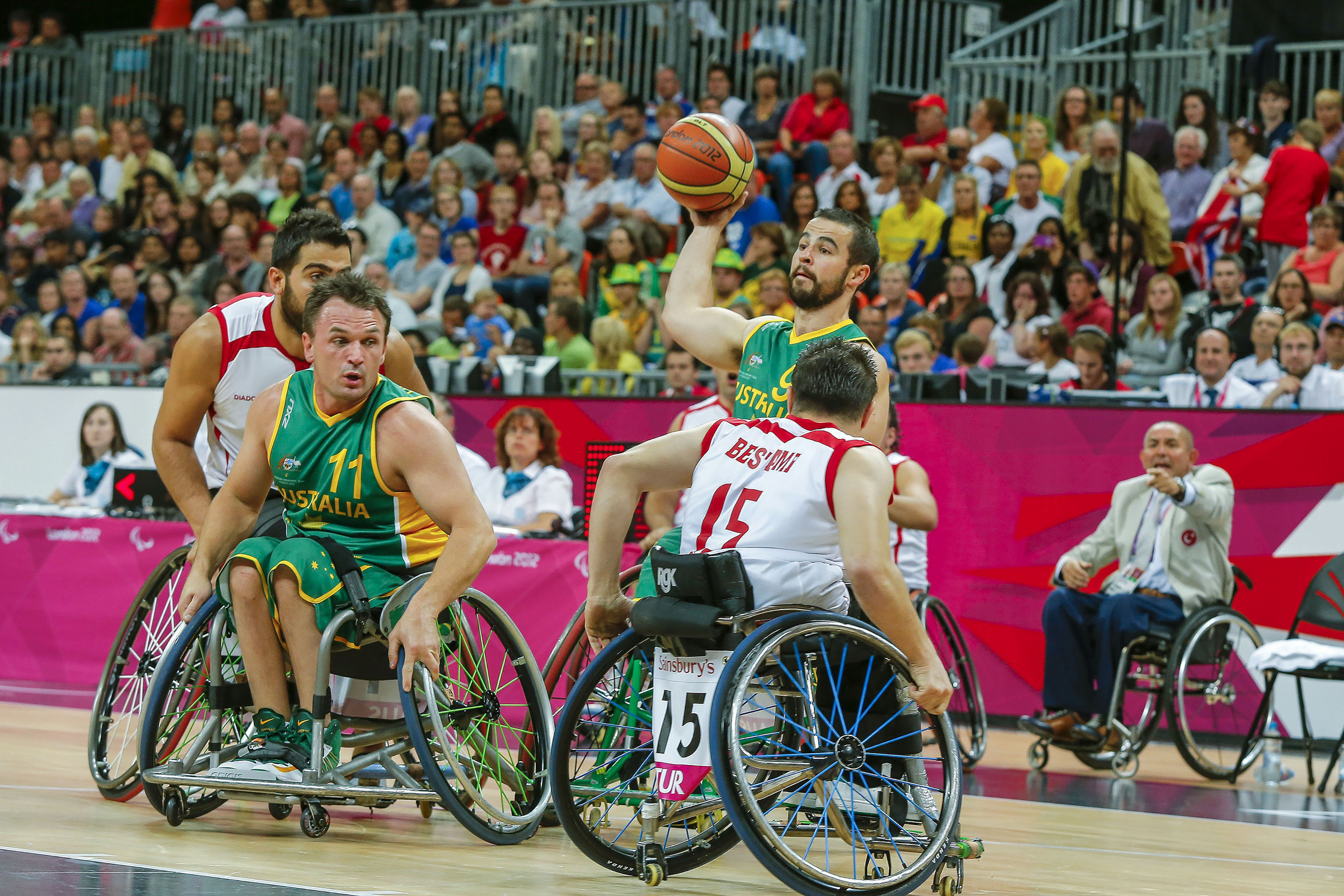 Photograph of Australian Paralympic team member Tristan Knowles at the 2012 Summer Paralympic Games in London